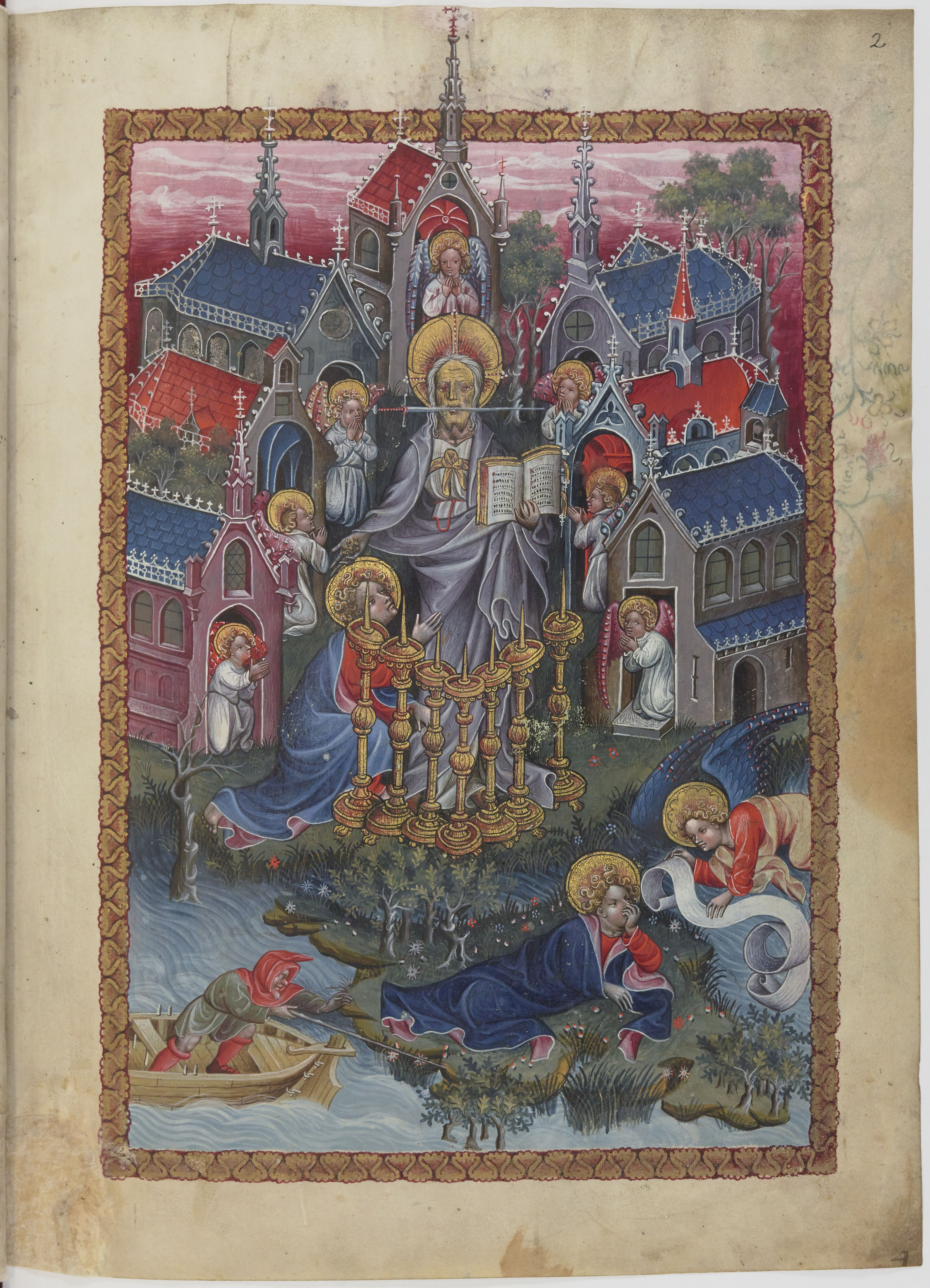 f. 2r, St. John on Patmos. The vision of Christ and seven candlesticks and the seven churches of Asia